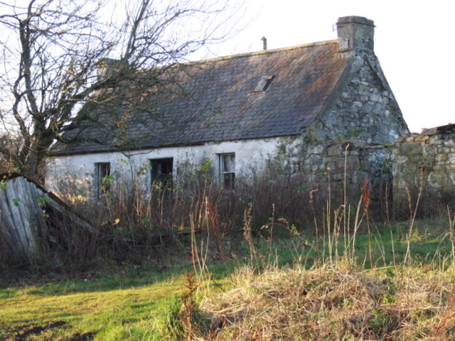 Abandoned croft near Knockfarrel